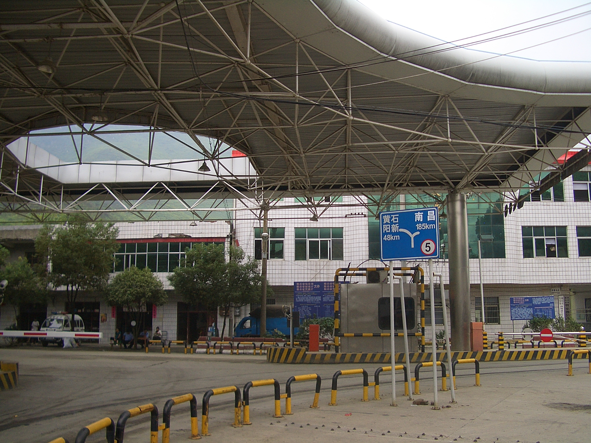 The junction of national highways G106 and G316 near the eastern tip of Tongshan County (Hubei), near the Jiangxi border. The junction name is Jiajiayuan or Gujiayuan (no idea how the first character is meant to be pronounced). The photo is taken looking east, i.e. coming from Tongshan town. The roads from here will go to the left (north) toward Yangxin/Huangshi (and eventually, Ezhou and Wuhan) (that's G106/316 combined), and right (south) toward Nanchang (that's G316).